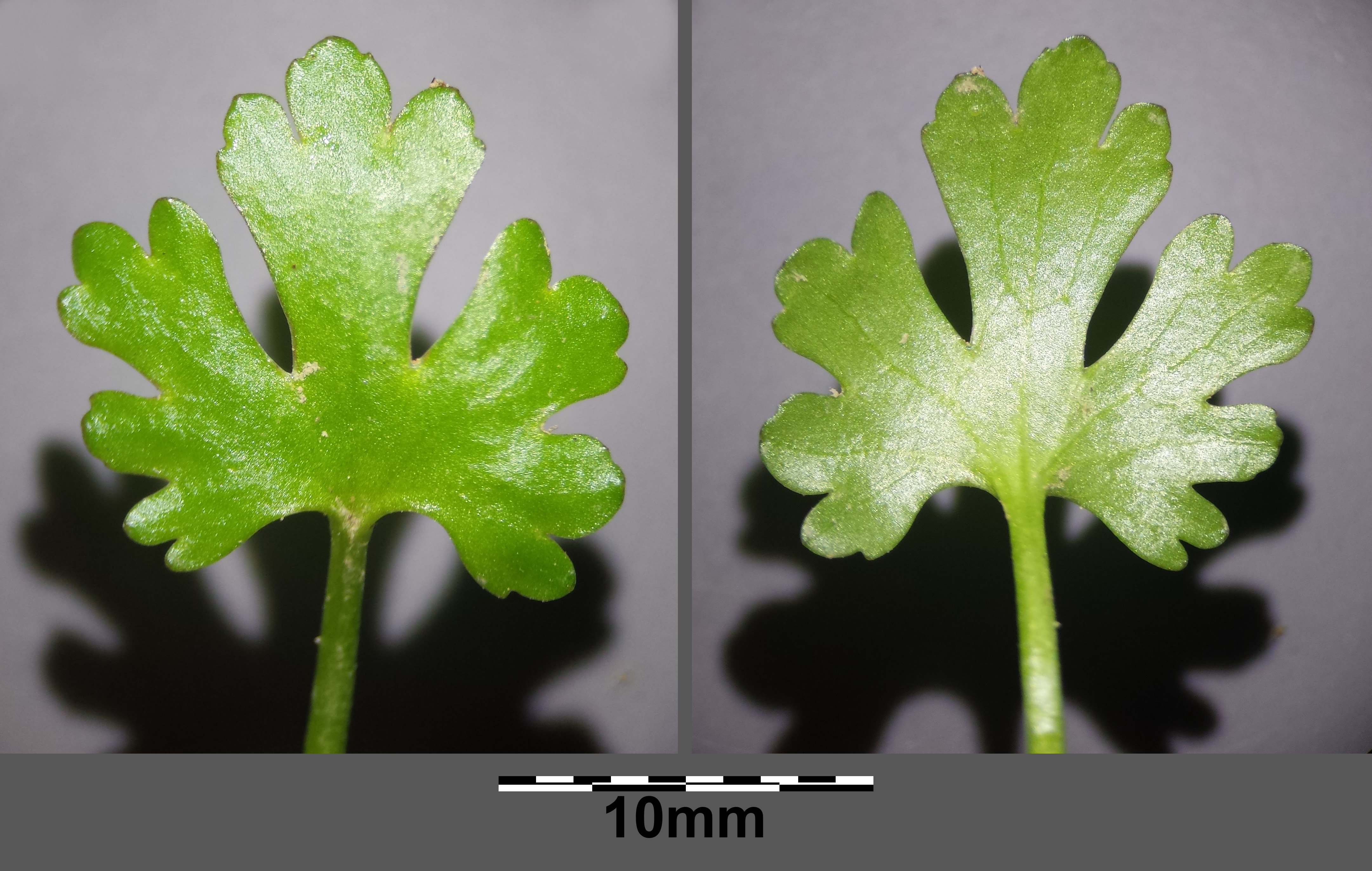 Ground leaf (top and bottom side) Taxonym: Ranunculus sceleratus ss Fischer et al. EfÖLS 2008 ISBN 978-3-85474-187-9 Location: pond near Michelstetten, district Mistelbach, Lower Austria - ca. 250 m a.s.l. Habitat: shore of a pond